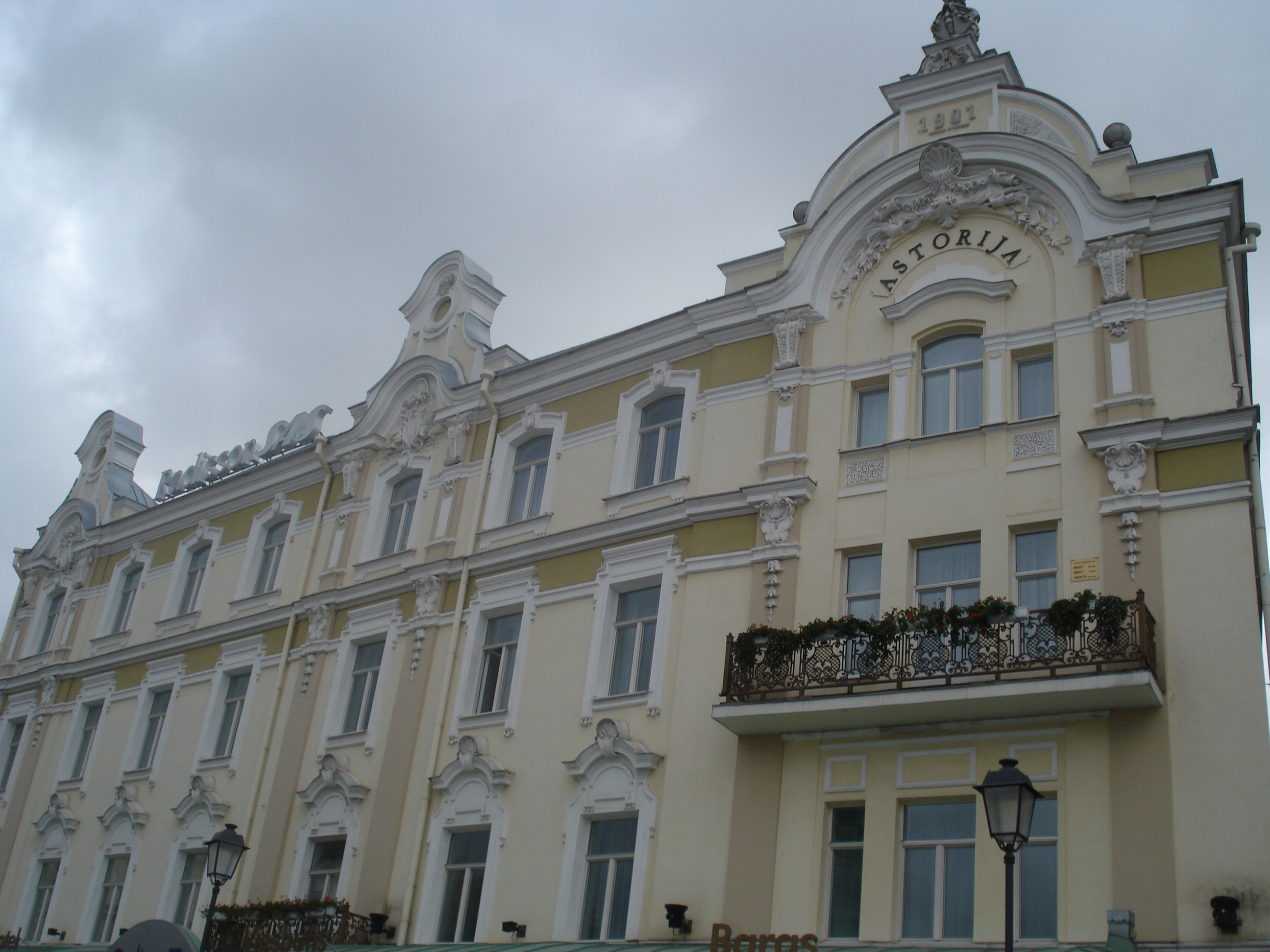 Hotel "Italy" («Италия») build by August Klein in 1901, now Radisson SAS Astorija. Didžioji g. 35/2